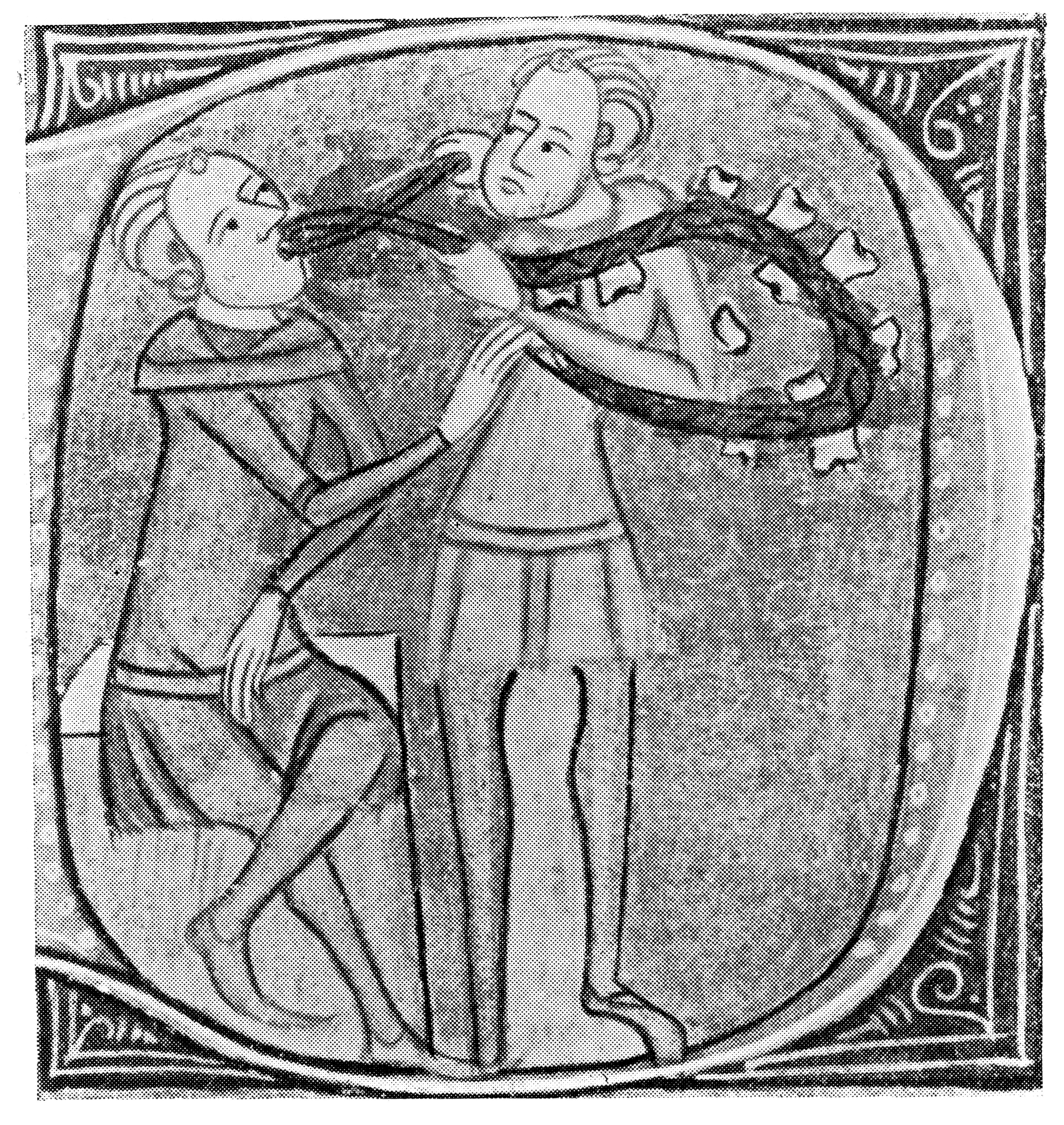 "The Dentist", 14th Century (Roy.MS. 6 E.VI). General Collections Keywords: 14th century; Dentistry